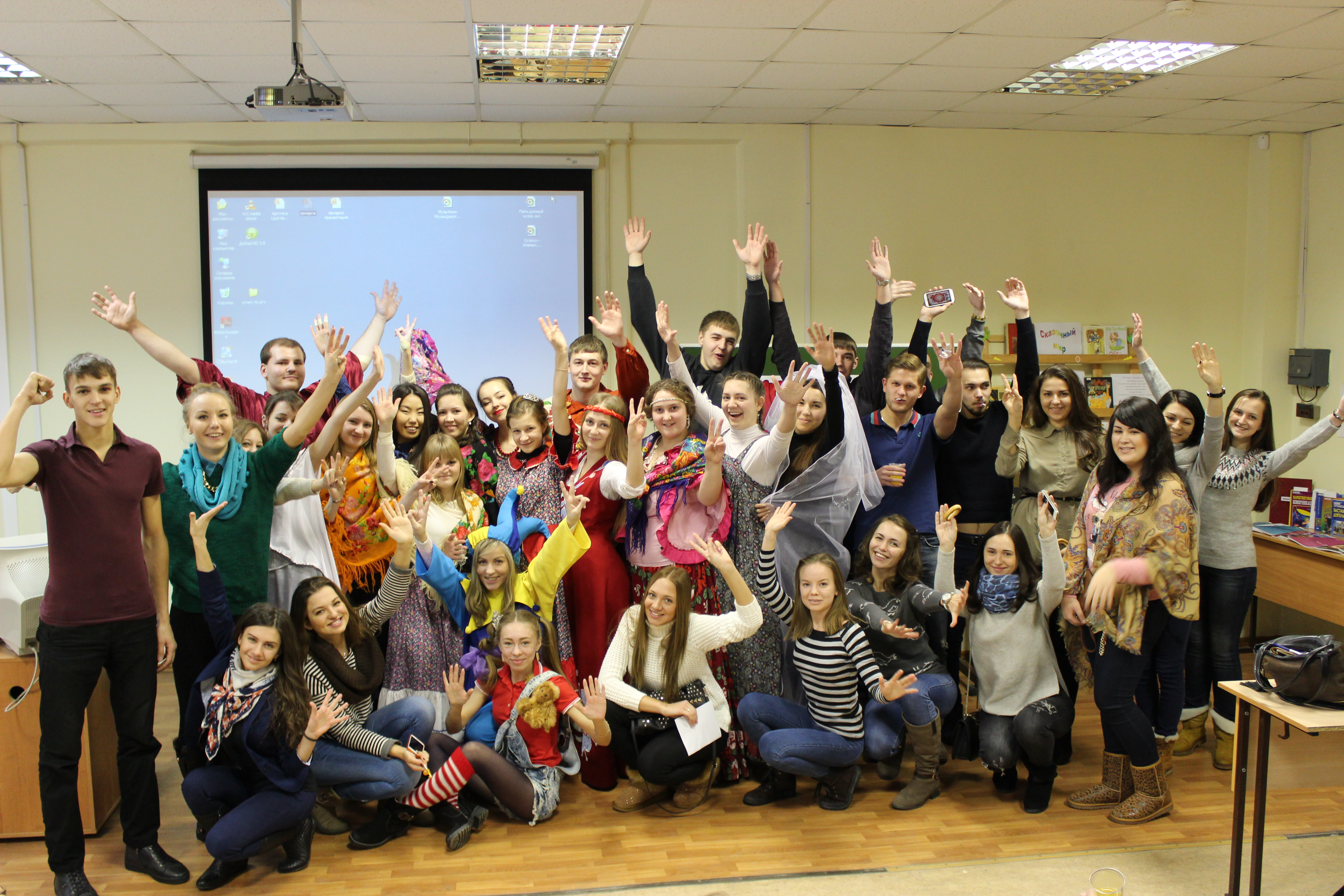 A book fair in the library of Novosibirsk State University of Economics and Management